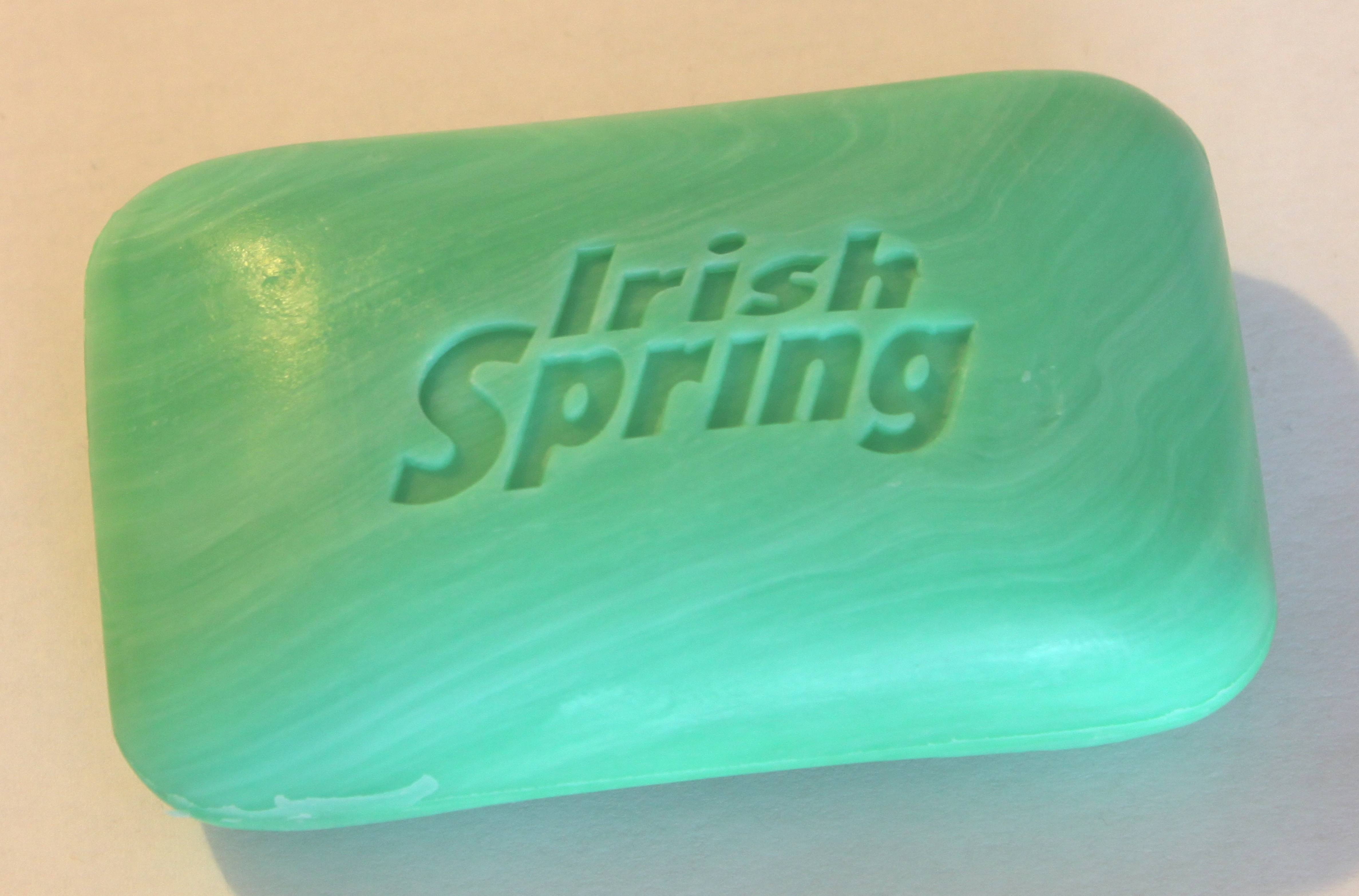 A bar of Irish Spring 'Original' deodorant soap, distributed by the Colgate-Palmolive company.